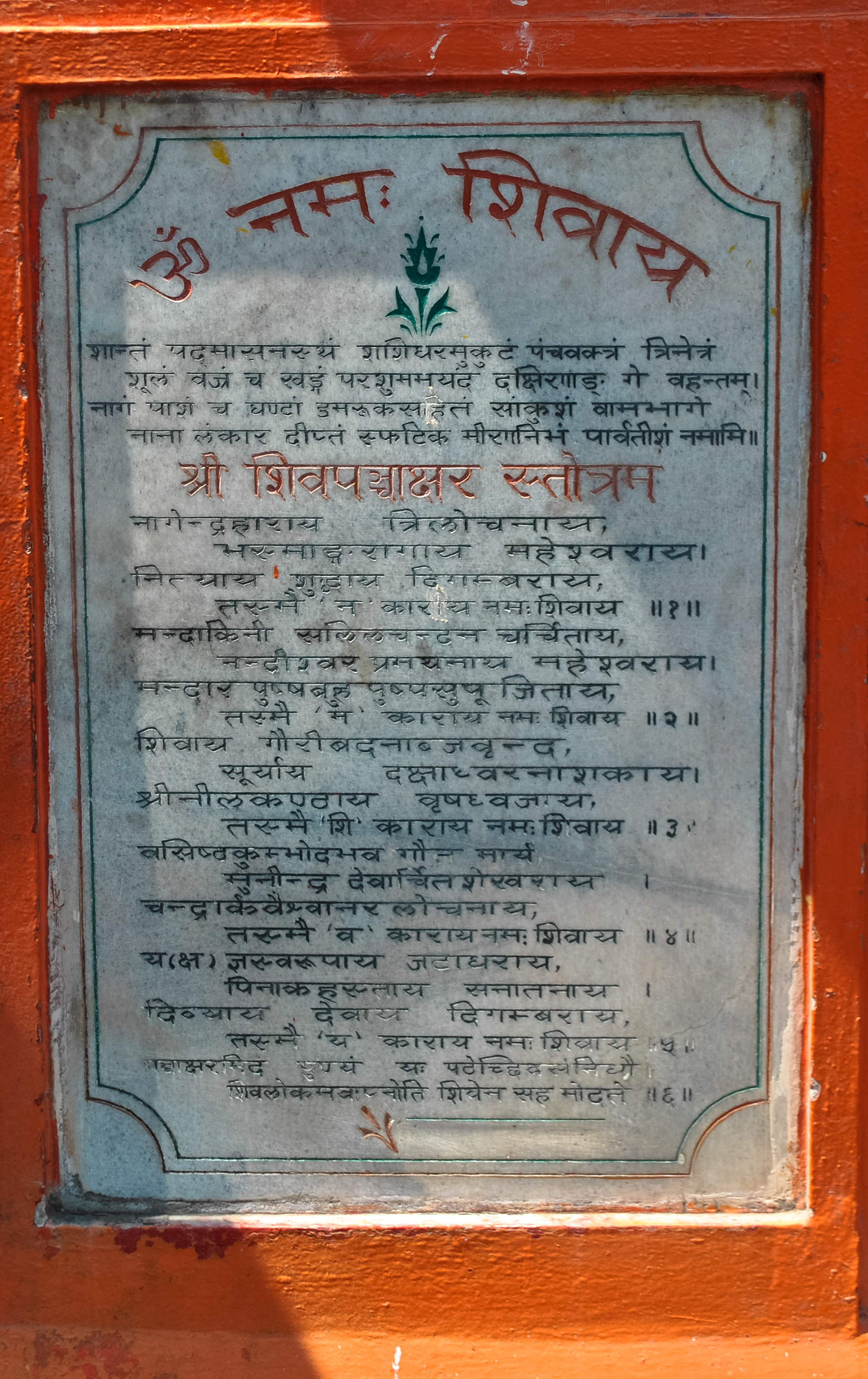 This picture was taken during Kalindi khal trek.